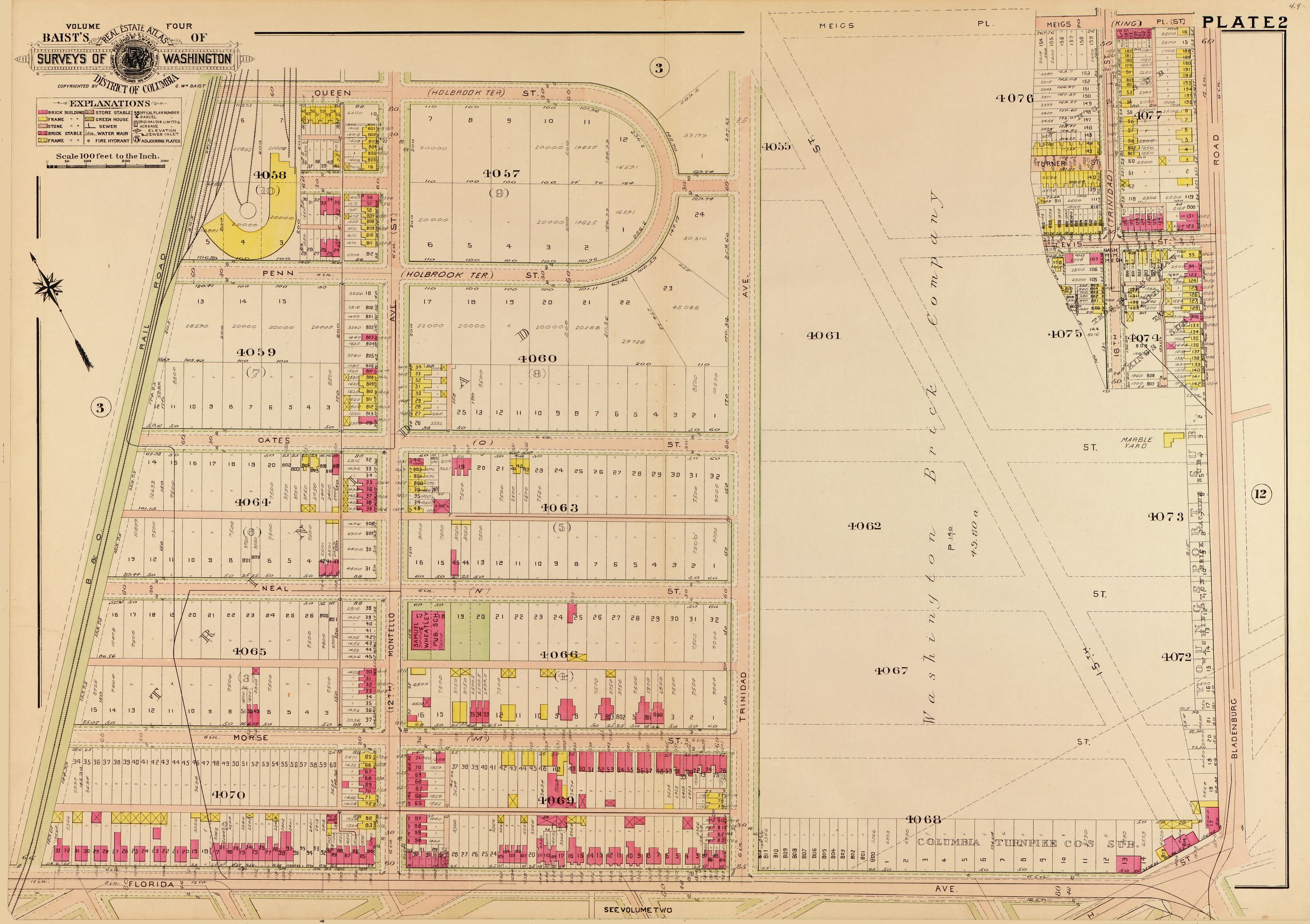 v. 3. [N.W. section, north of Florida Ave.] -- v. 4. [N.E. section north of Florida Ave., and S.E. section east of Anacostia River]